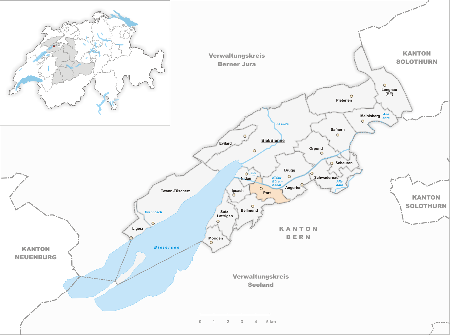 Municipality Port